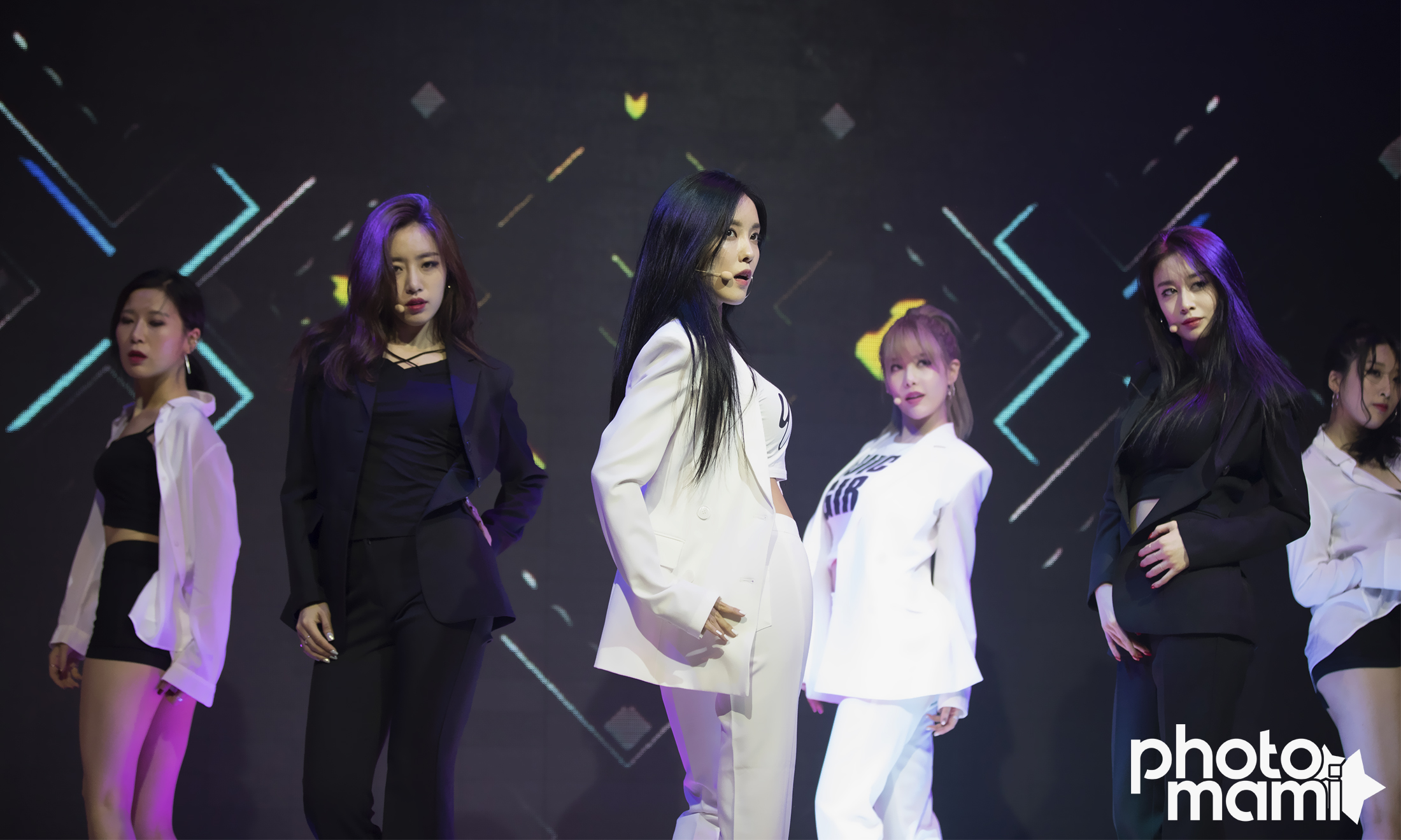 170614 'What's My Name' Showcase